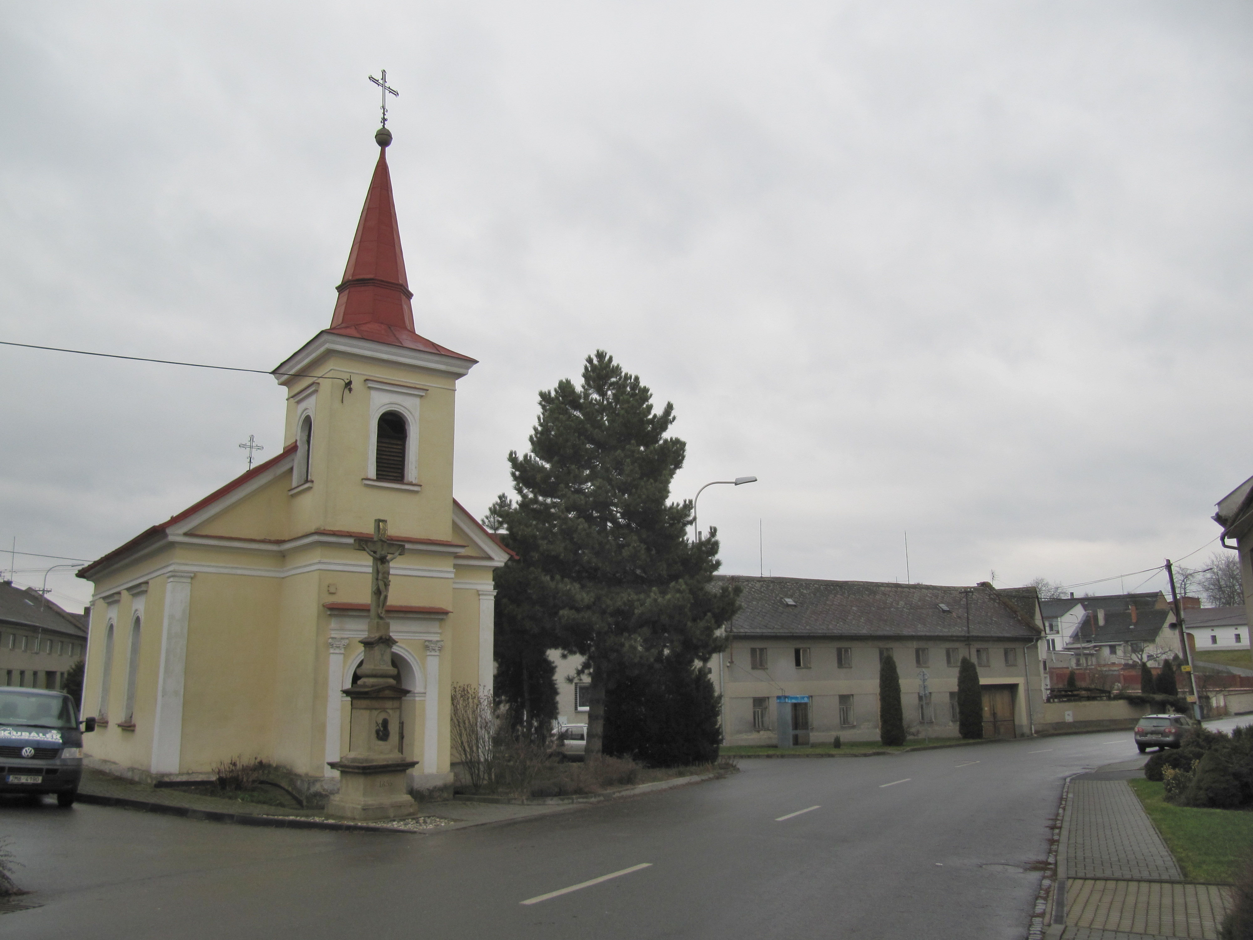 Svésedlice, Olomouc District, Czech Republic.